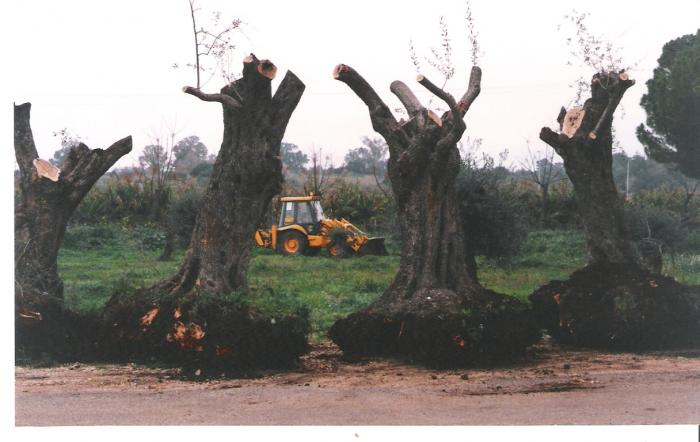 relocating 60 year old olive trees to The Peace Avenue, on the road to Hilla, a moment after uprooting, Notes: (2147)